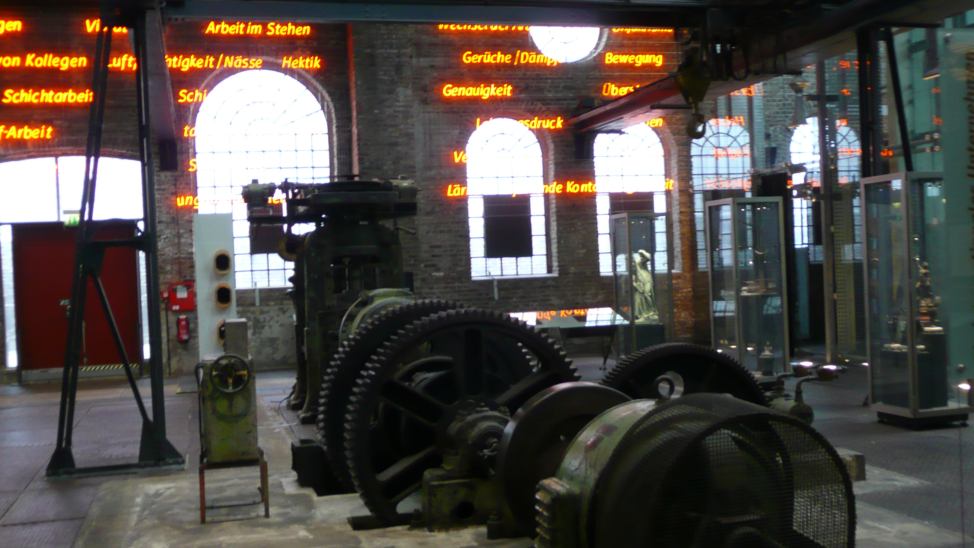 Entry hall of Zinkfabrik Altenberg (industry museum)